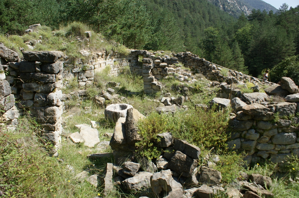 Ruins of the monastery of San Sebastian Sull. Ninth century. Pre-Romanesque. Saldes (Barcelona).